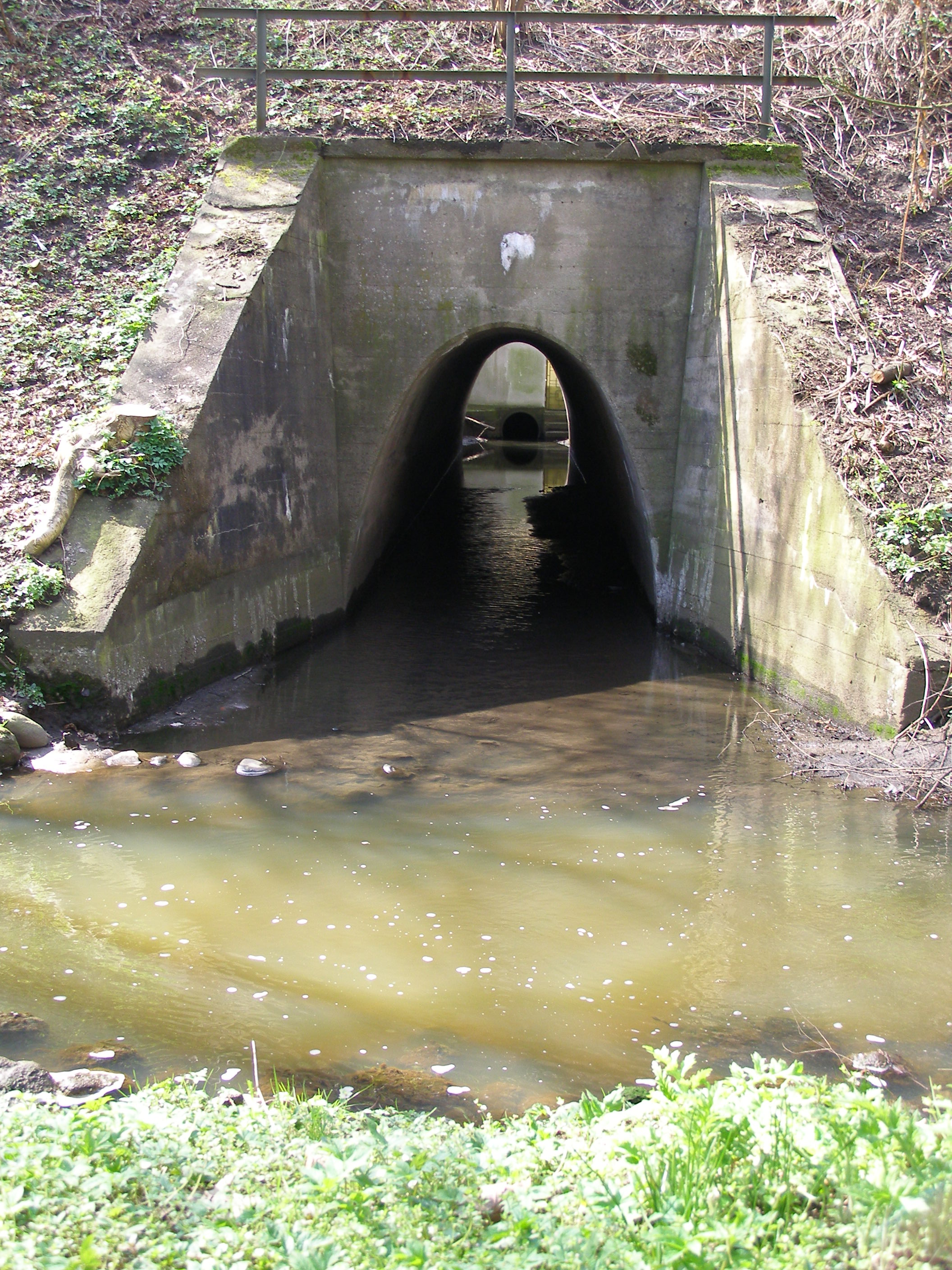 Confluence of the Schillingsbek and Kollau brooks, under the Güterumgehungsbahn Hamburg